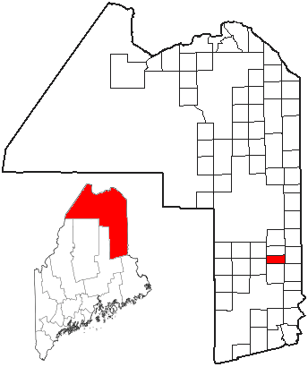 Adapted from U.S. Census Bureau maps (American FactFinder) and Wikipedia's ME county maps by Bumm13.